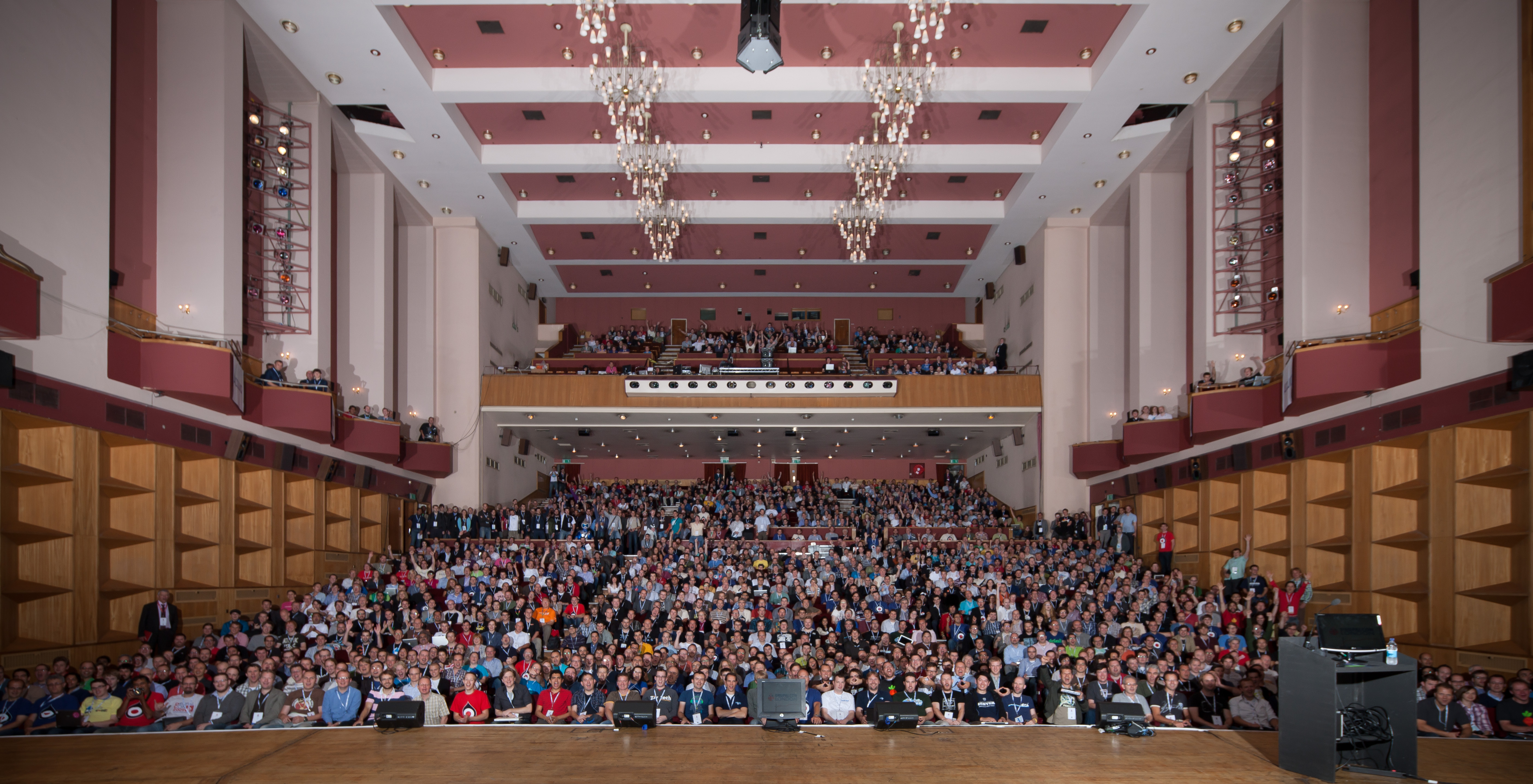 DrupalCon London Group Photo